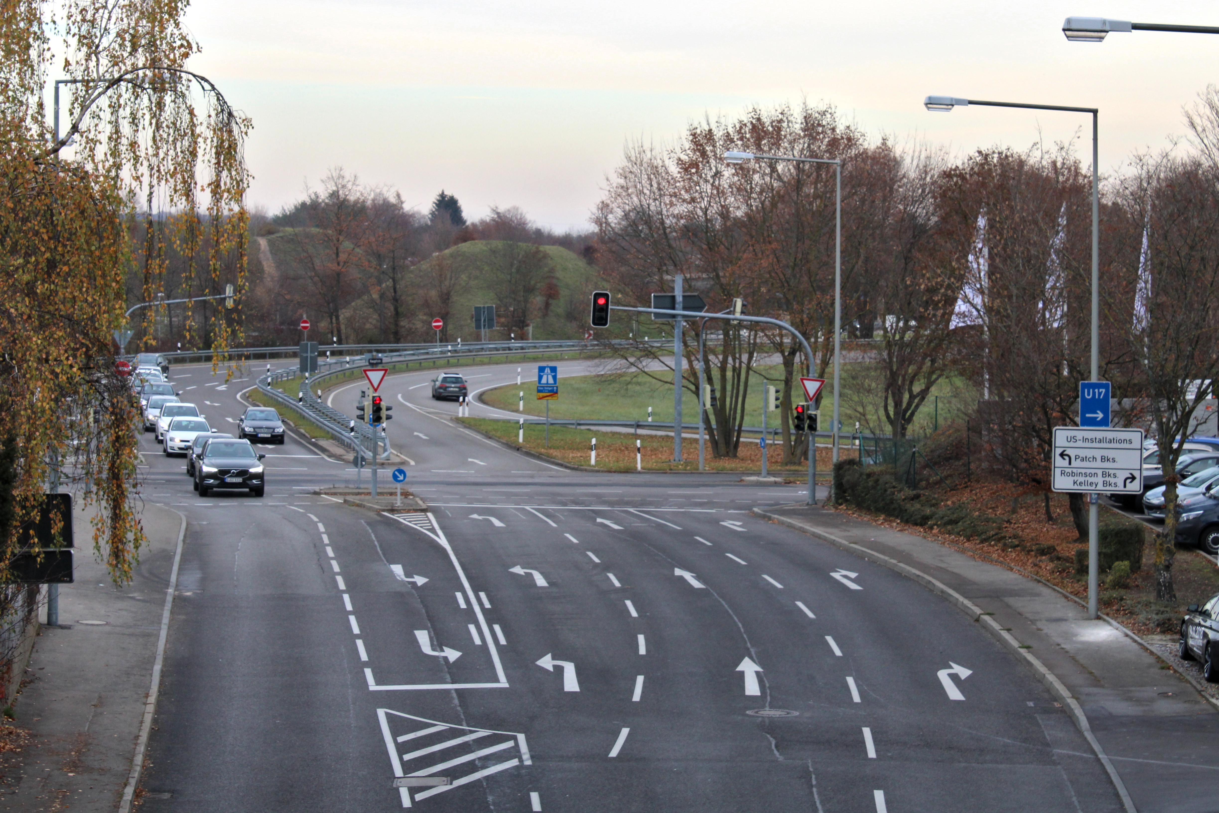 Bundesautobahn 831 in Stuttgart-Vaihingen